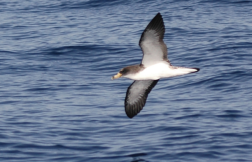 Cory's Shearwater Calonectris borealis at La Gomera, in flight